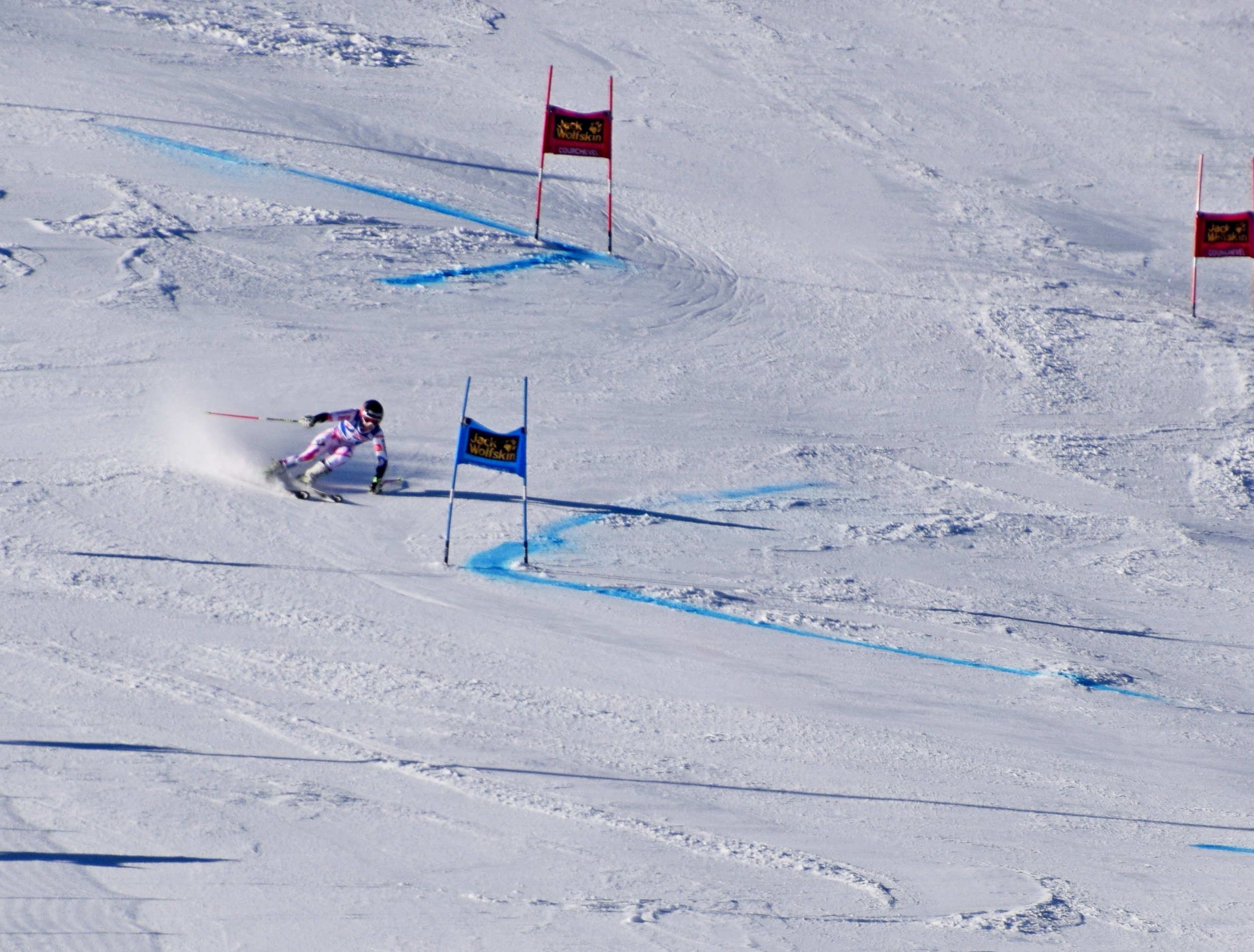 Taina Barioz, 1 run of Giant Slalom, Alpine Skiing World Cup of Women in Courchevel, 20 december 2015